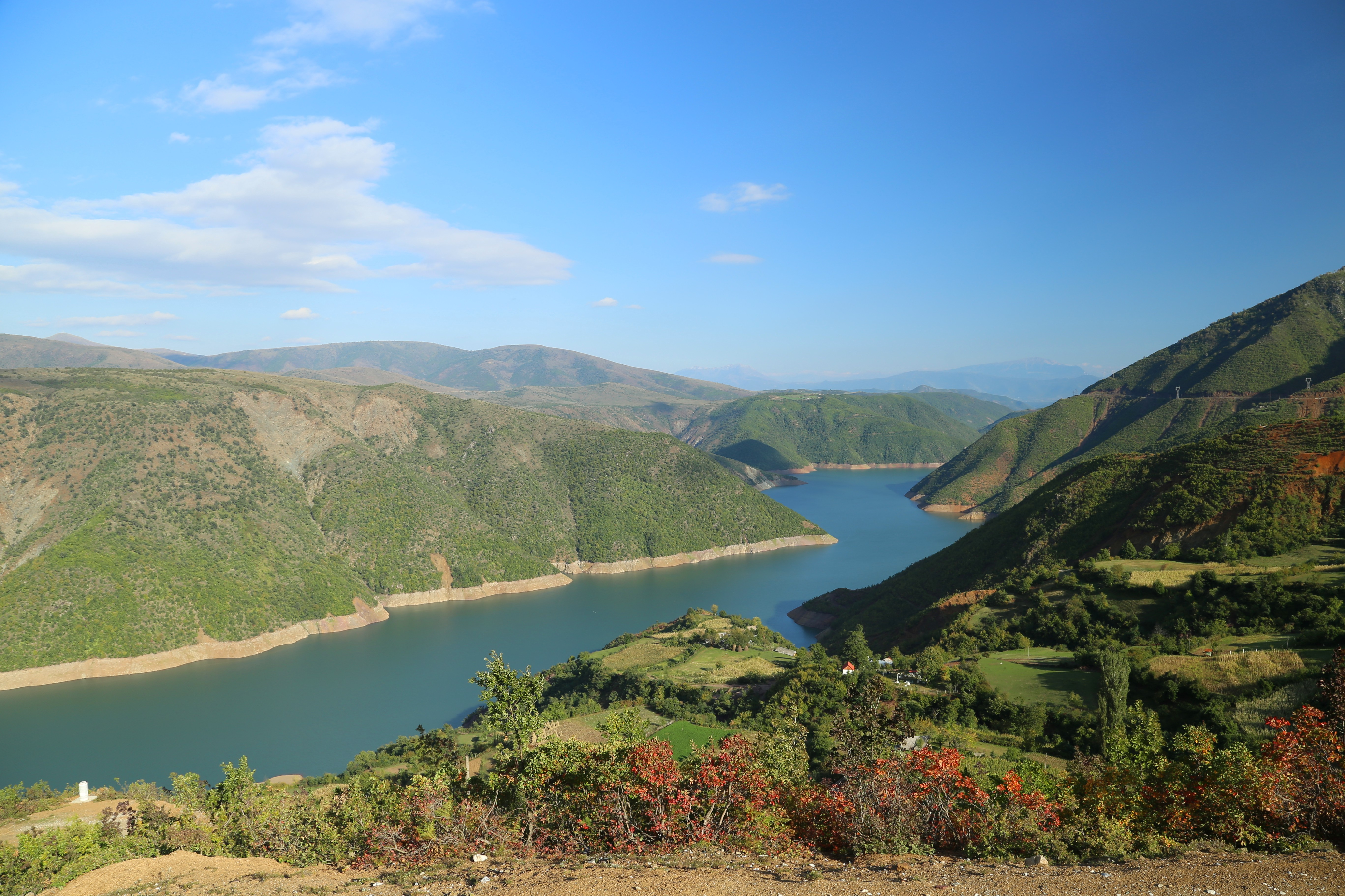 Lake Fierza as seen from the Rruga SH22 in Albania